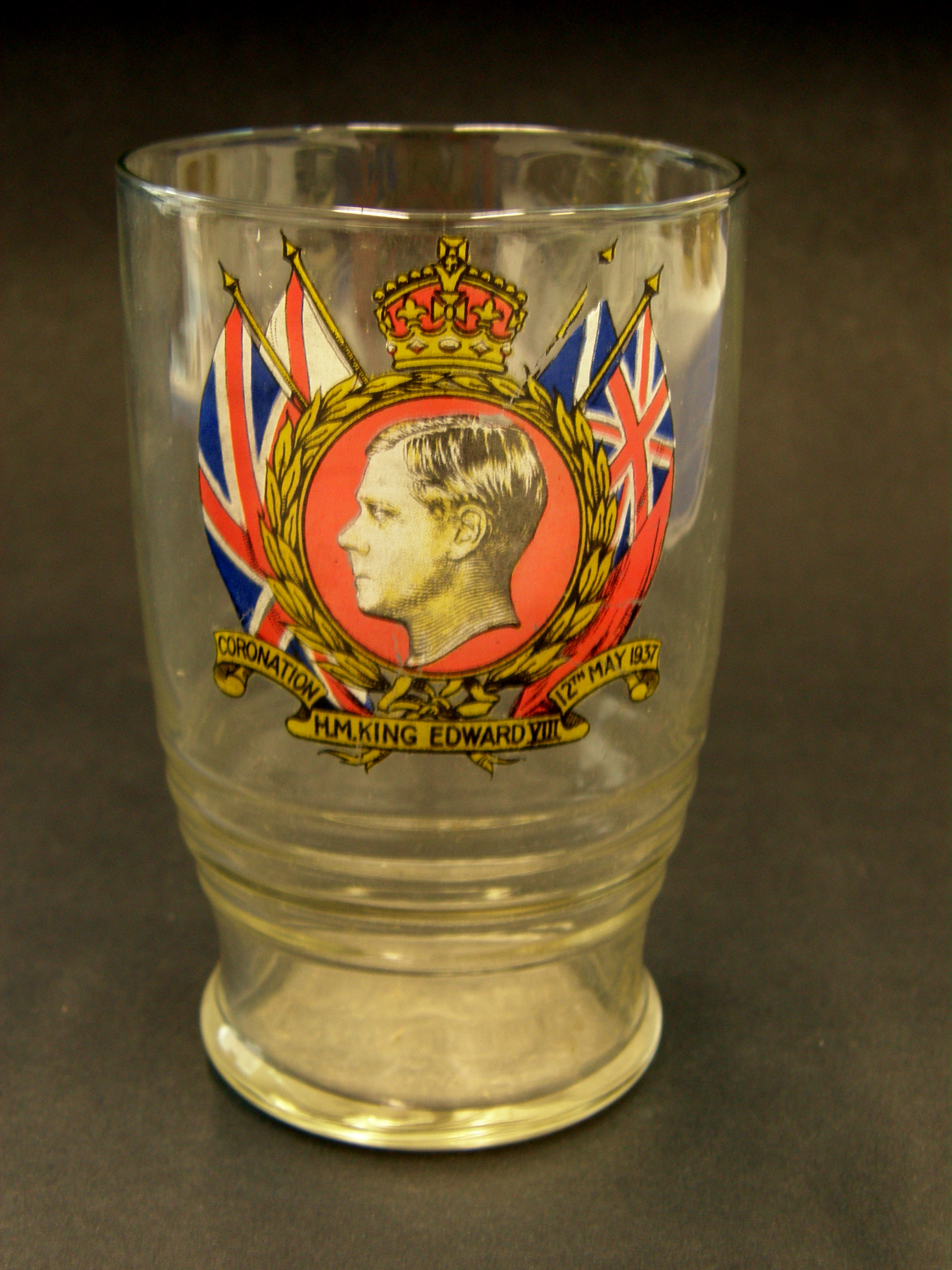 Tumbler, commemorative, glass, for the coronation of Edward VIII planned for 12 May 1937. Decal decoration. "CORONATION - H.M KING EDWARD VIII - 12th MAY 1937"